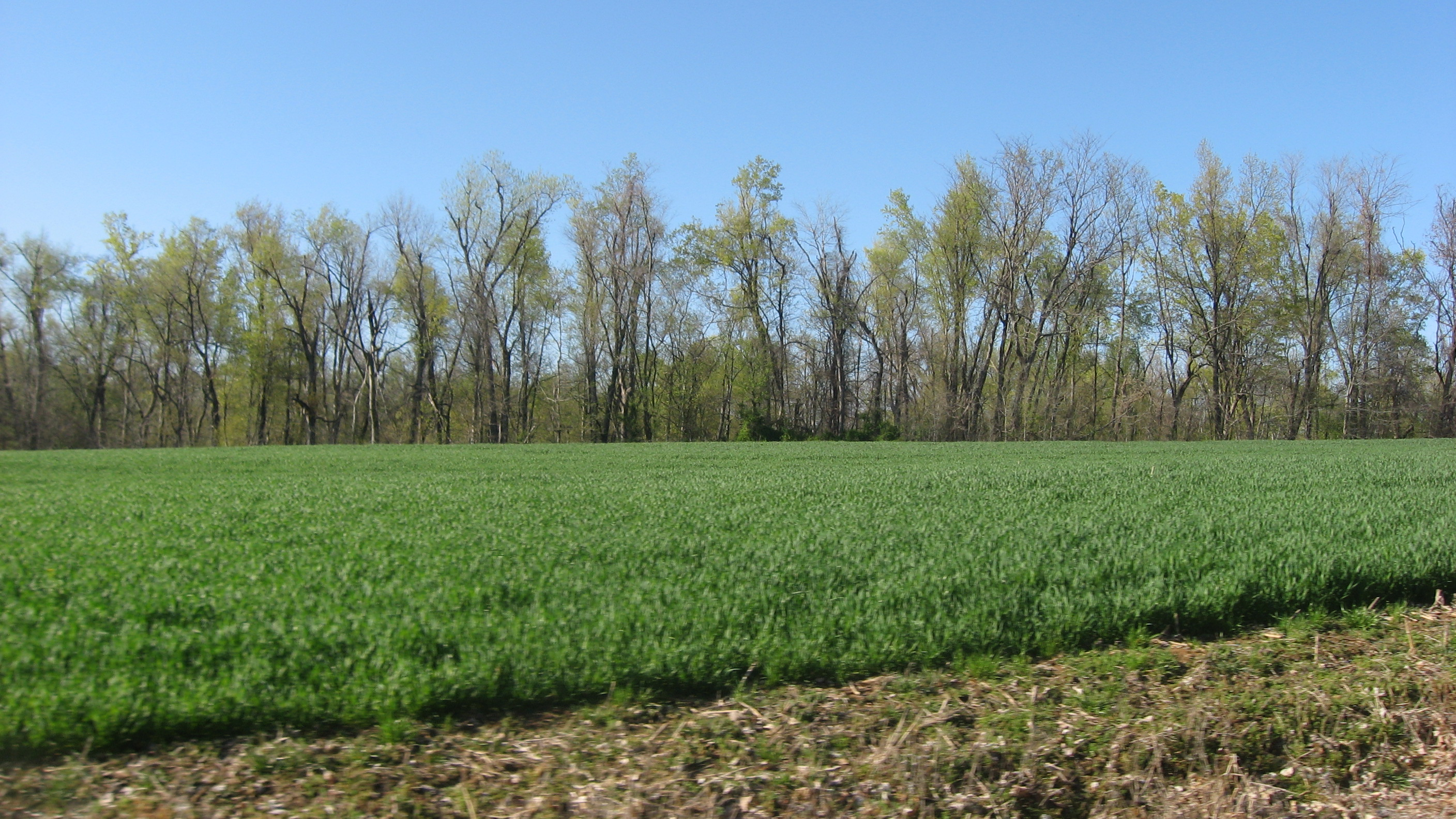 Looking north from County Road 1308 toward the Turk Site, west of Bardwell in Carlisle County, Kentucky, United States. As an important archaeological site, Turk is listed on the National Register of Historic Places.